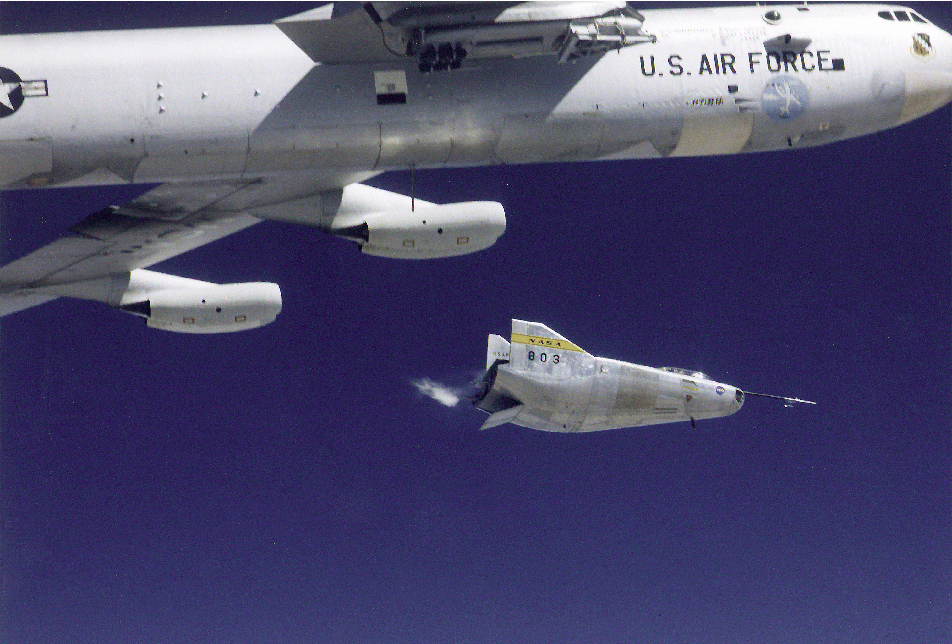 This photo shows the M2-F3 lifting body being launched from NASA's B- 52 mothership at the NASA Flight Research Center (FRC--now the Dryden Flight Research Center), Edwards, California. A fleet of lifting bodies flown at the FRC from 1963 to 1975 demonstrated the ability of pilots to maneuver and safely land a wingless vehicle designed to fly back to Earth from space and be landed like an aircraft at a pre-determined site.